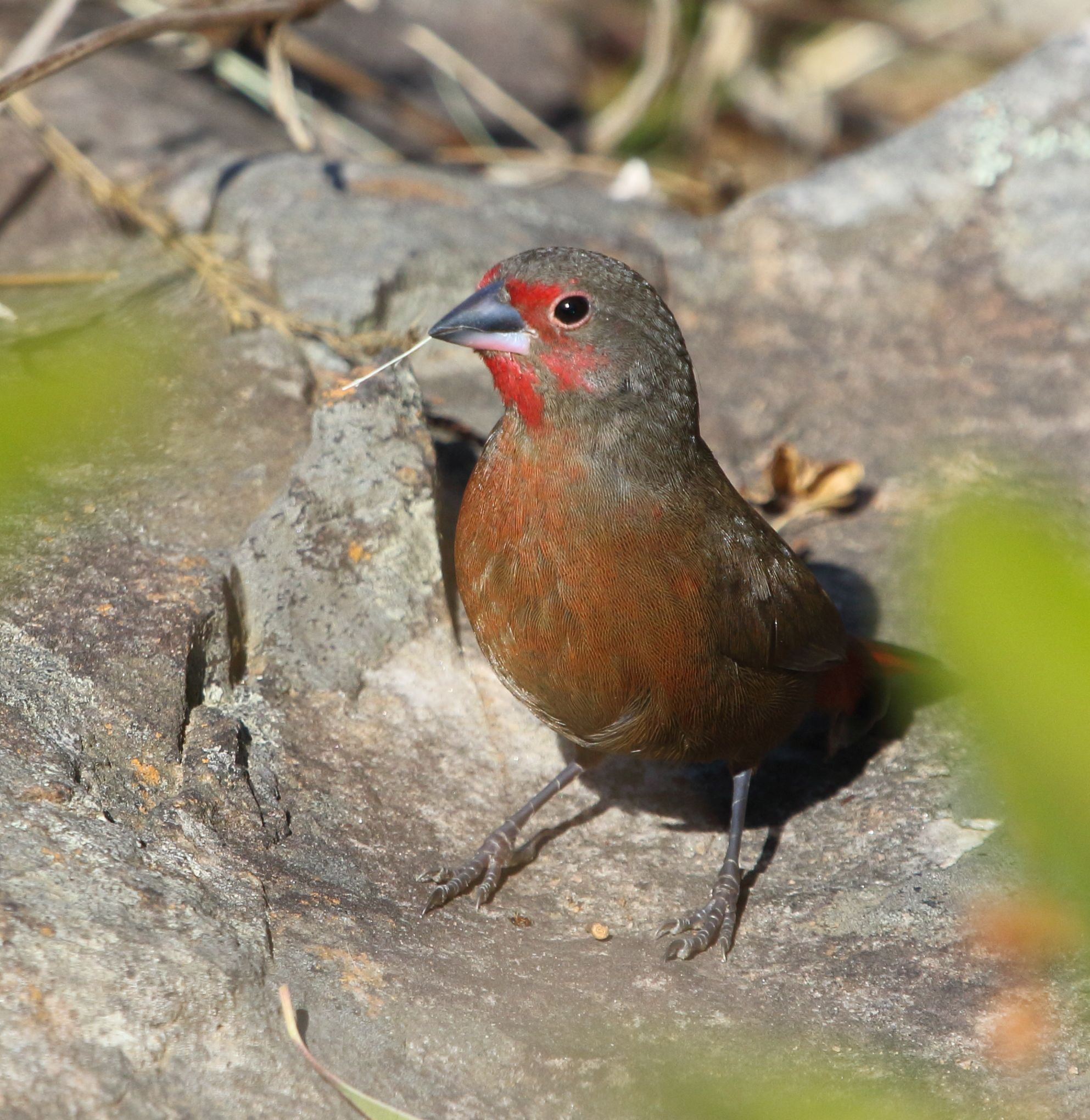 Female African Firefinch Lagonosticta rubricata at Cumberland Nature Reserve, KwaZulu-Natal